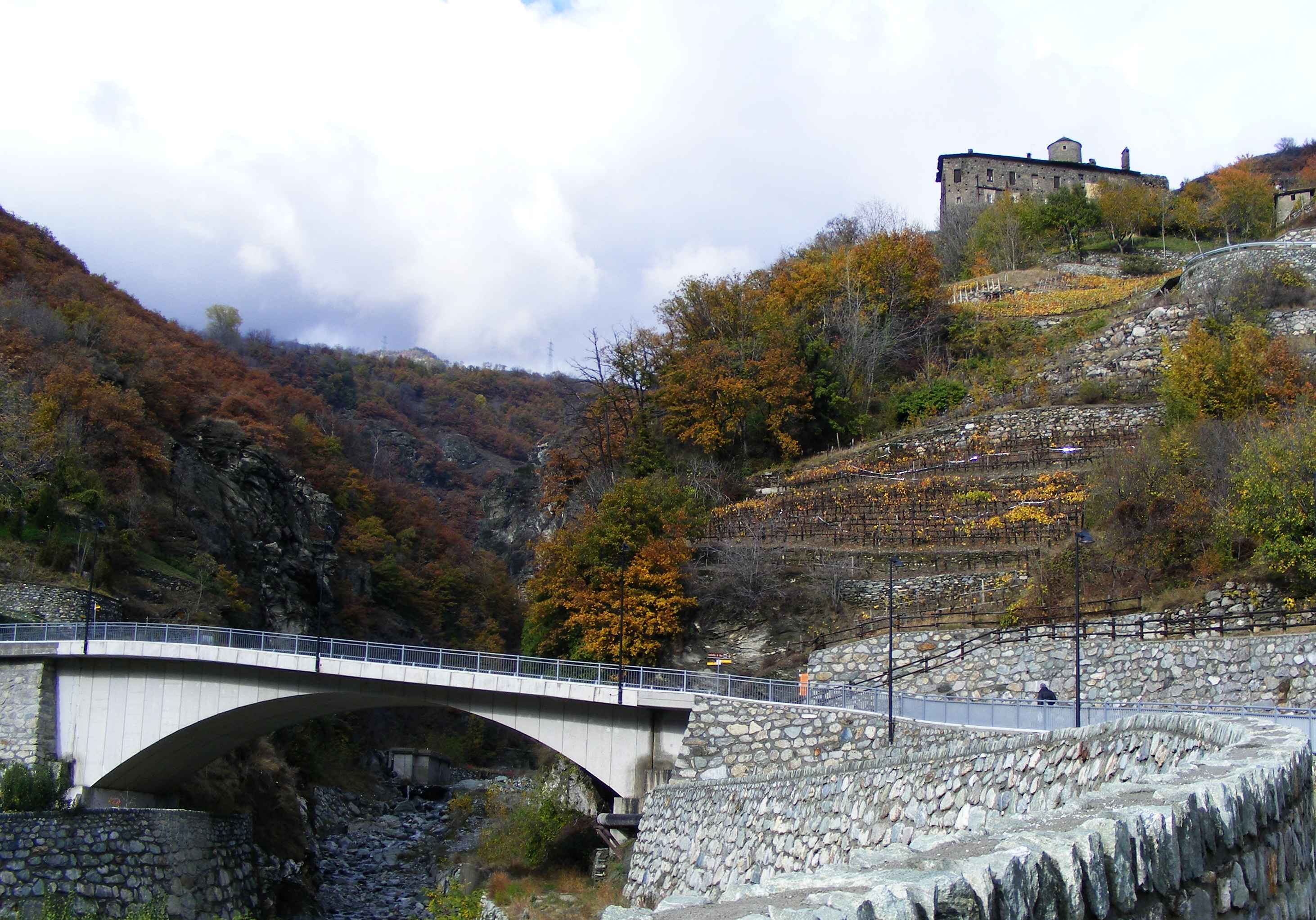 Nus (AO, Italy): bridge on Saint Barthélemy creek and castle